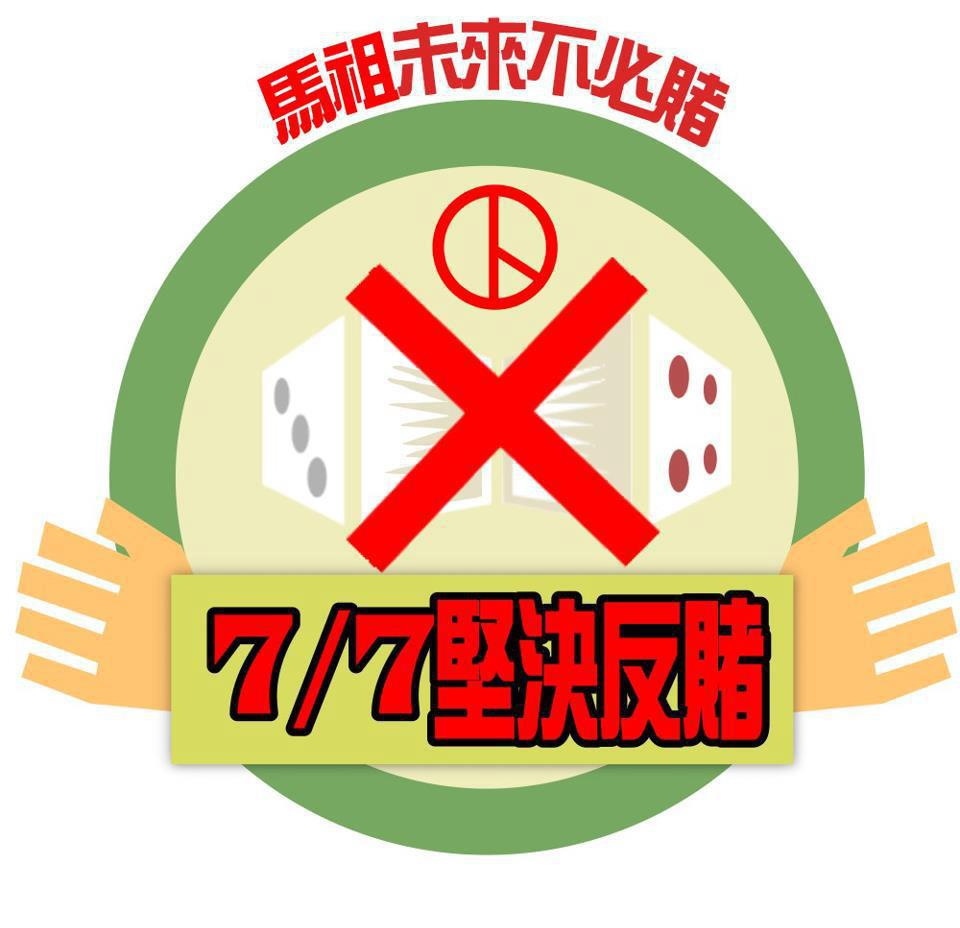 A "Rejects Casino in Matsu' Future" Sticker for the County-level Referendum on July 7th, 2012中文（台灣）: 中華民國依《公民投票法》所實施的第3個地方性公民投票 -- 2012年連江縣博弈公民投票 黃玟嵐設計的馬祖反賭博公投貼紙